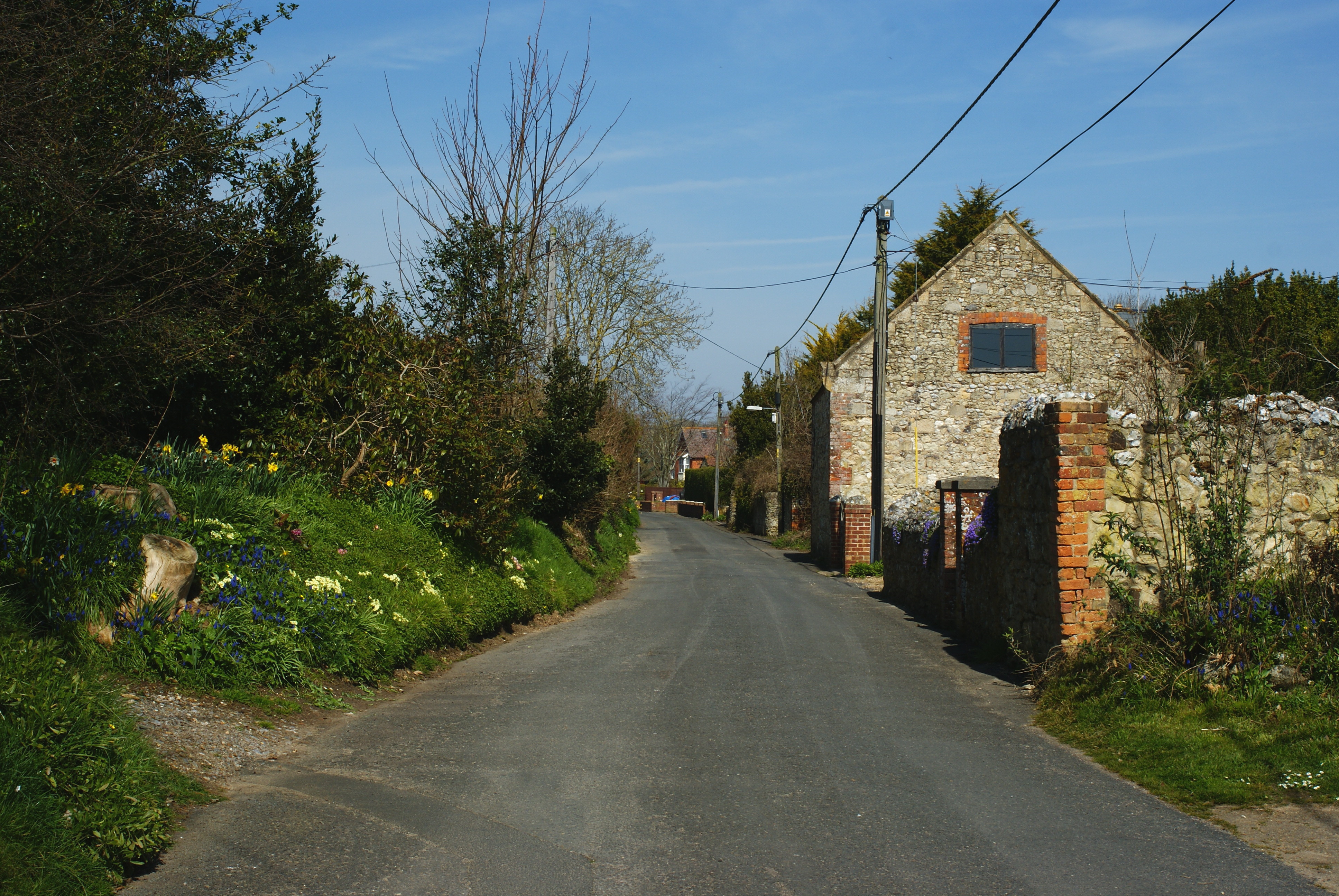 Easton Lane, Freshwater, Isle of Wight Looking in the direction of Freshwater.